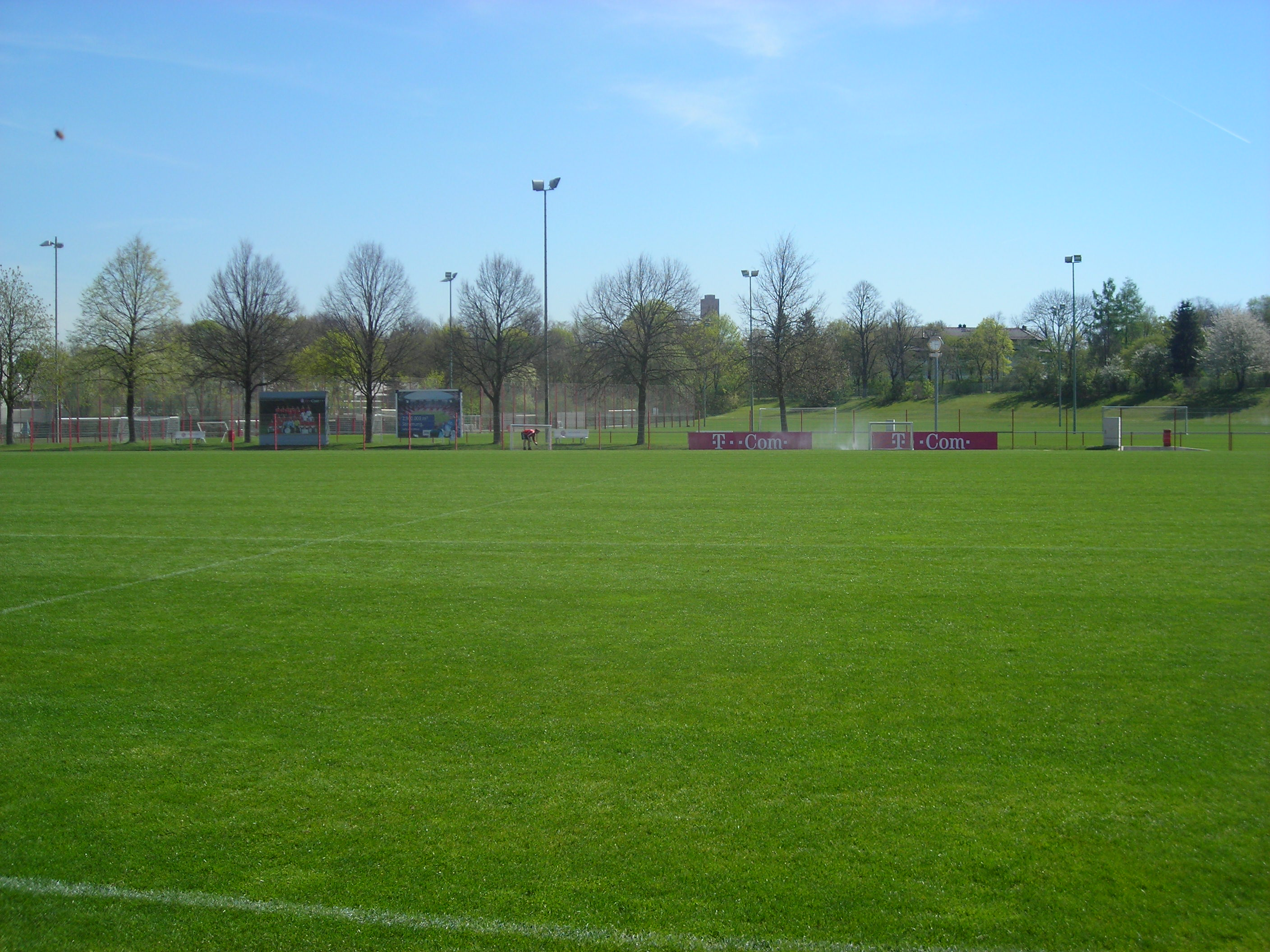 FC Bayern München premises in Säbener Str. 53, München, Germany (partial view).